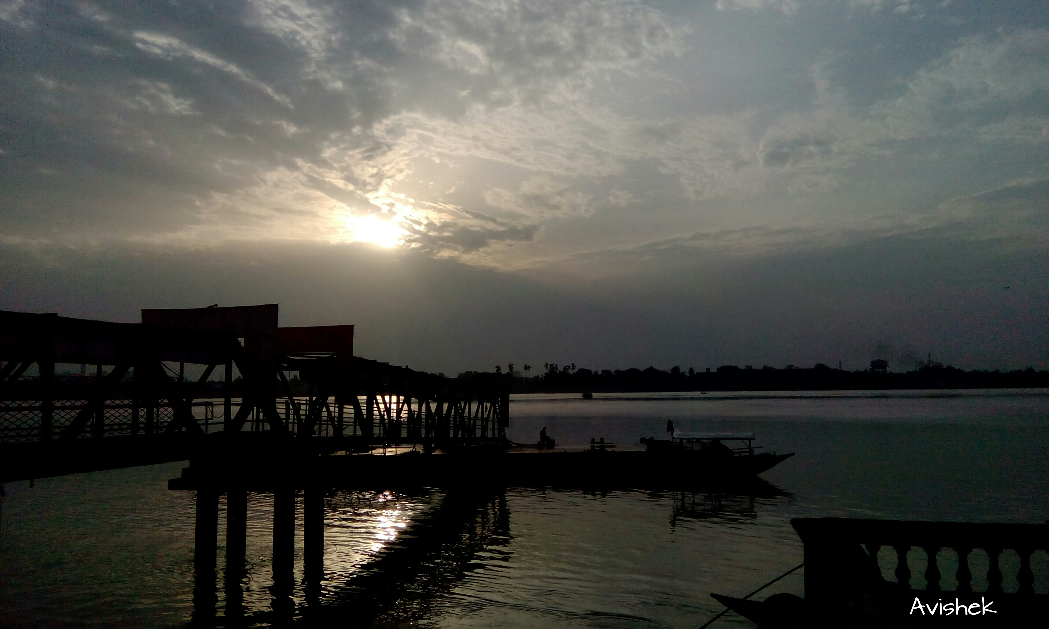 Rishra Ferry Ghat Picture at early morning, August 2016.